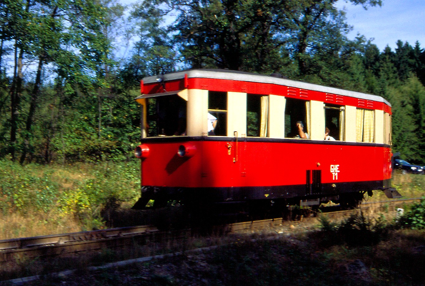 German private railbus 187 001, ex GHE T 1, on Harzer Schmalspurbahnen.